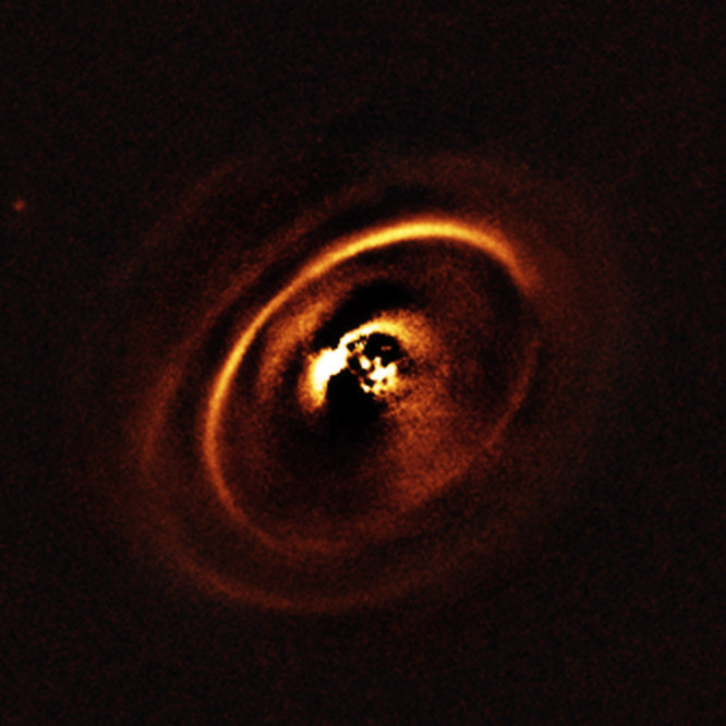 Using the ESO's SPHERE instrument at the Very Large Telescope, a team of astronomer observed the planetary disc surrounding the star RX J1615 which lies in the constellation of Scorpius, 600 light-years from Earth. The observations show a complex system of concentric rings surrounding the young star, forming a shape resembling a titanic version of the rings that encircle Saturn. Such an intricate sculpting of rings in a protoplanetary disc has only been imaged a handful of times before. The central part of the image appears dark because SPHERE blocks out the light from the brilliant central star to reveal the much fainter structures surrounding it.